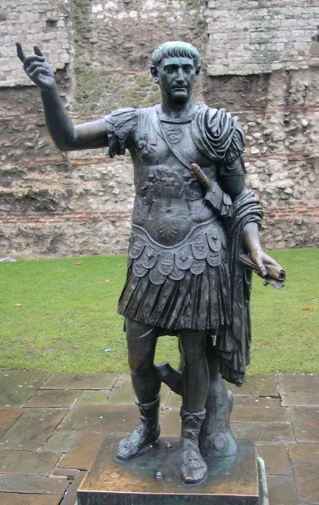 Statue of Trajan Statue des Trajan